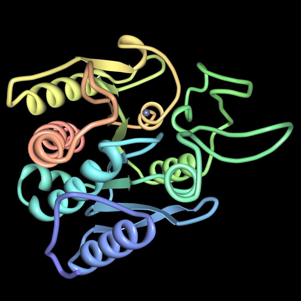 Refined crystal structure of carboxypeptidase A at 1.54 A resolution. Rees, D.C., Lewis, M., Lipscomb, W.N.